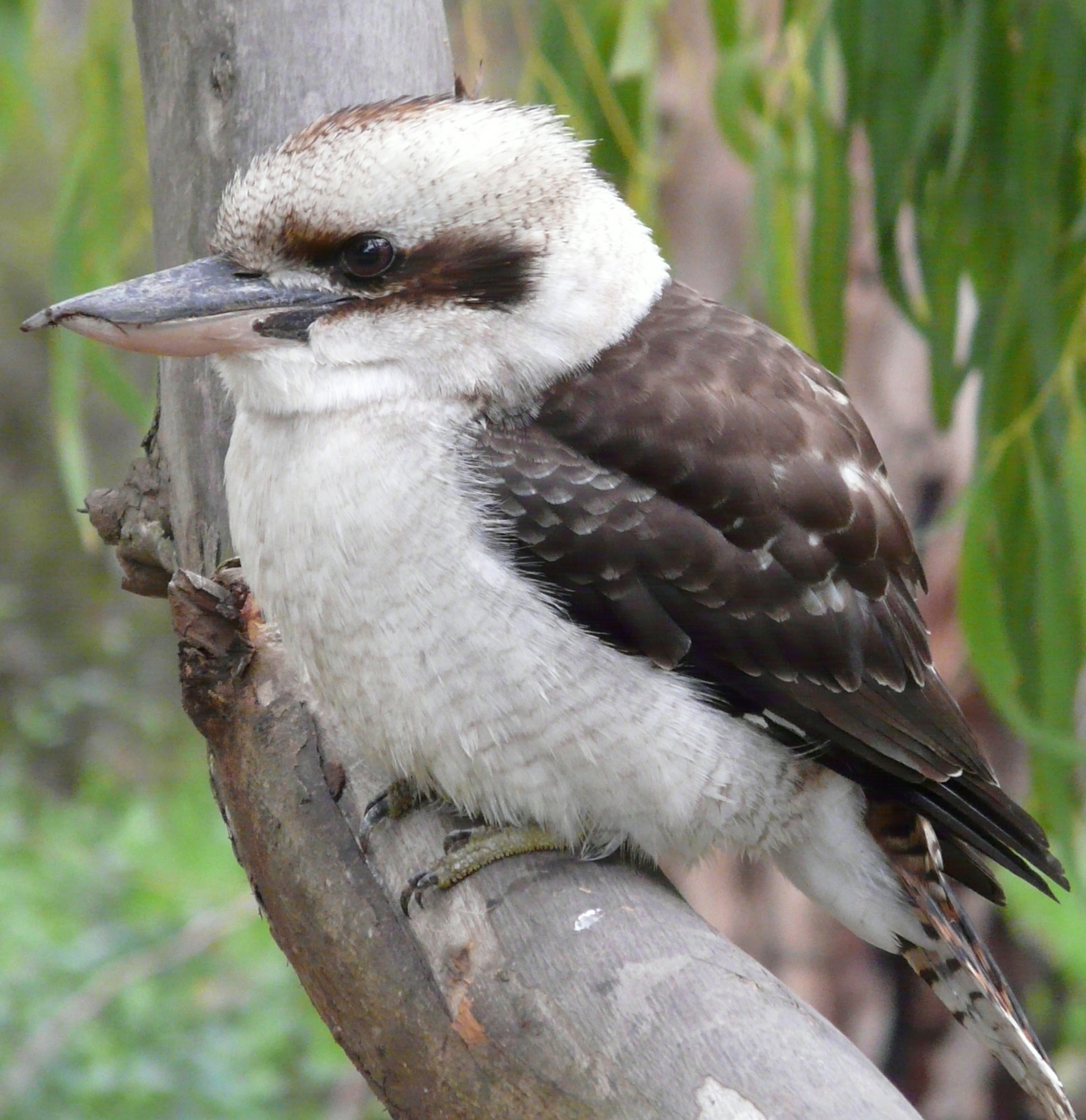 Kookaburra, probably Melbourne